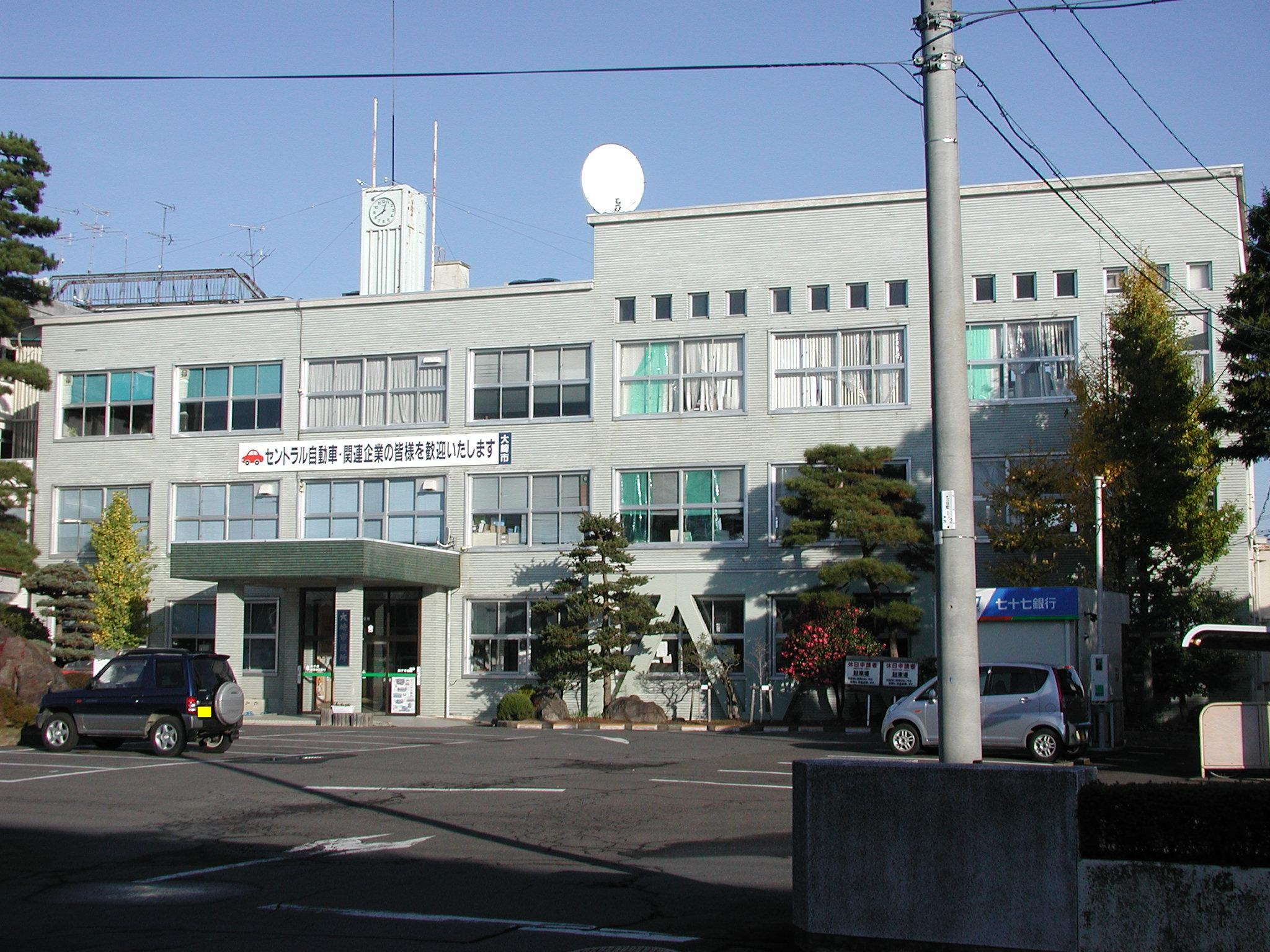 Ōsaki City Office